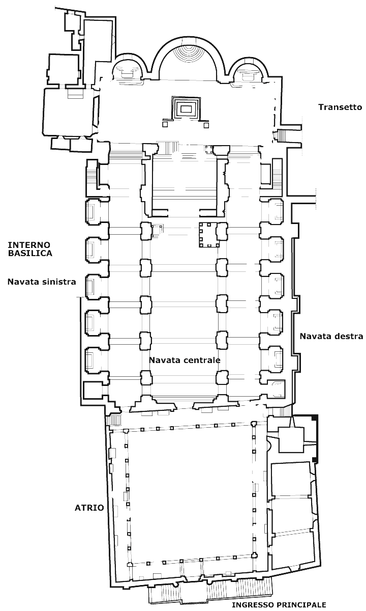 Salerno's Cathedral